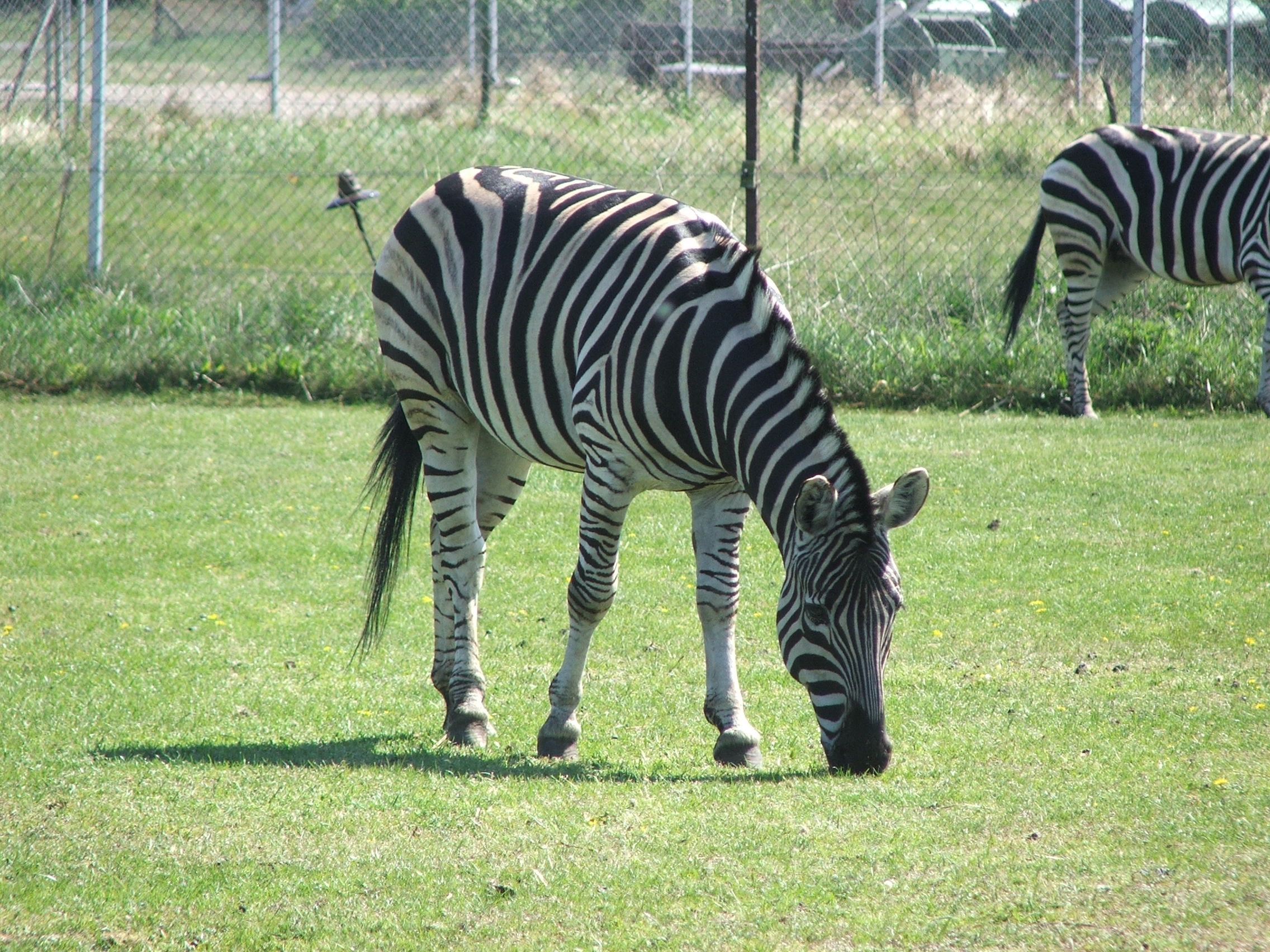 Equus quagga, Zoo Safari in Świerkocin, Poland